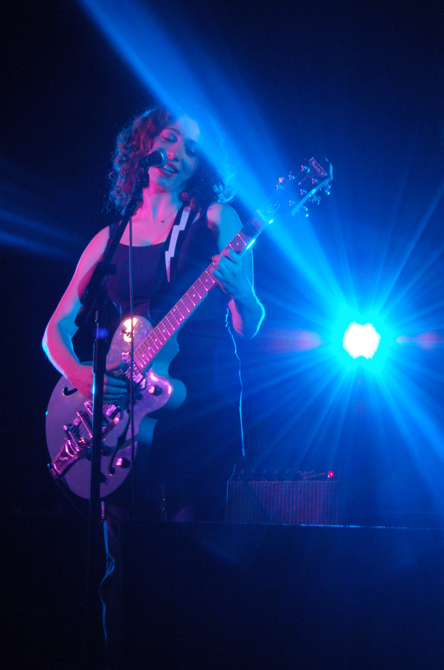 Live in a cowshed at TruckNine